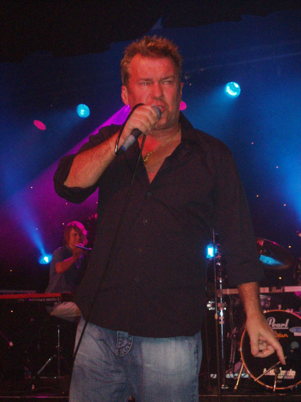 Jimmy Barnes on stage